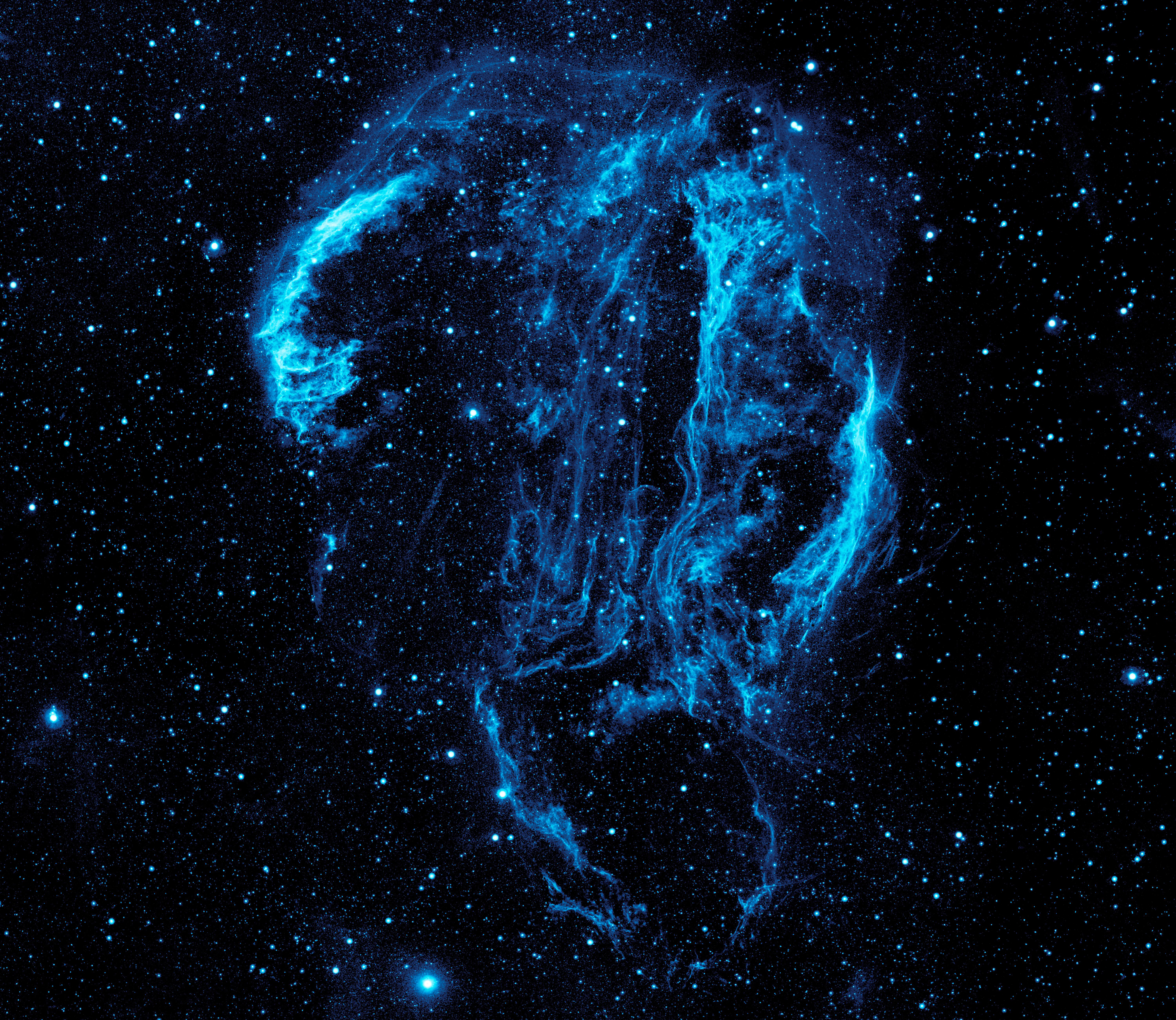 Wispy tendrils of hot dust and gas glow brightly in this ultraviolet image of the Cygnus Loop Nebula, taken by NASA’s Galaxy Evolution Explorer. The nebula lies about 1,500 light-years away, and is a supernova remnant, left over from a massive stellar explosion that occurred 5,000-8,000 years ago. The Cygnus Loop extends more than three times the size of the full moon in the night sky, and is tucked next to one of the 'swan’s wings' in the constellation of Cygnus. The filaments of gas and dust visible here in ultraviolet light were heated by the shockwave from the supernova, which is still spreading outward from the original explosion. The original supernova would have been bright enough to be seen clearly from Earth with the naked eye.